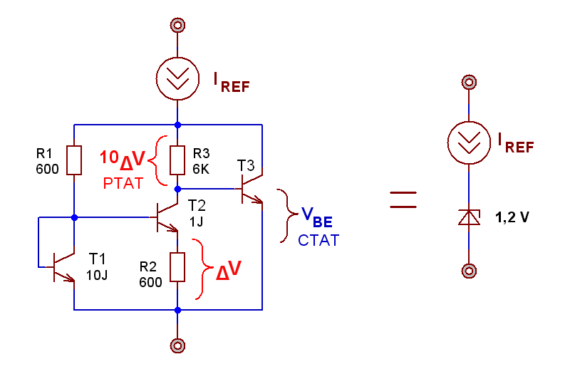 The simplest form of the Widlar bandgap reference. Works only when fed from a CCS (otherwise, Q3 Vbe drifts and so does tempco)